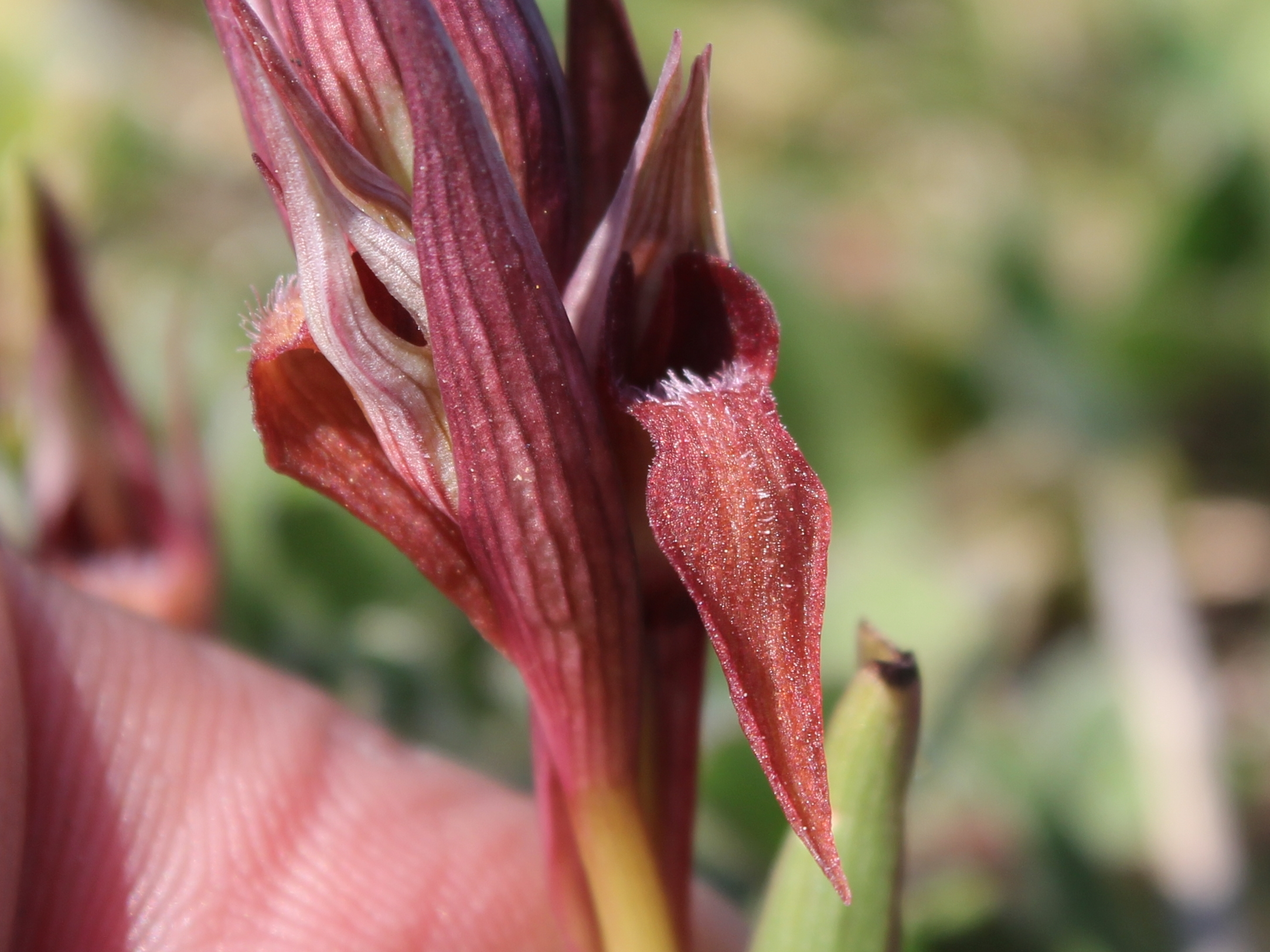 Serapias bergonii epichile